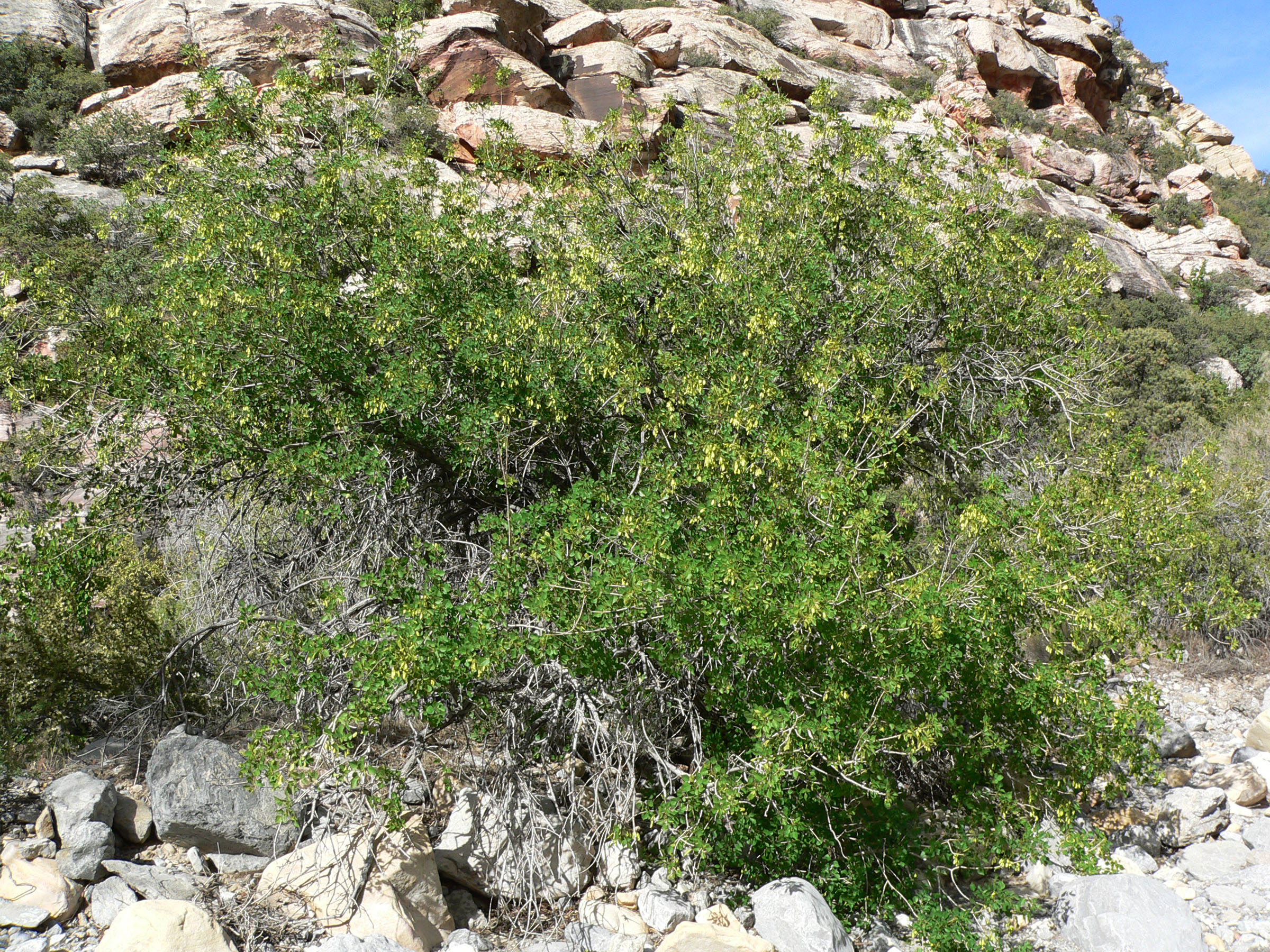 Fraxinus anomala in wash about 0.5 km west of Willow Spring, Red Rock Canyon, Spring Mountains, southern Nevada (elev. about 1400 m)